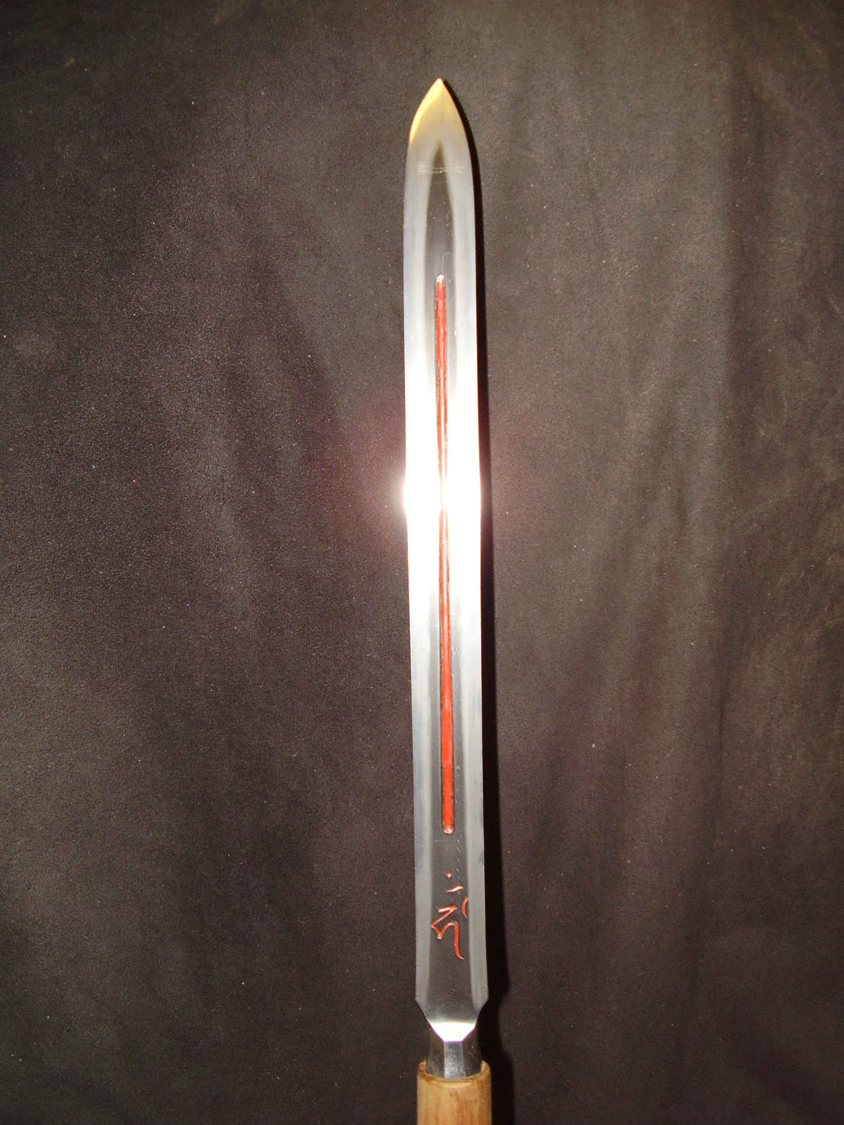 Nihonto (traditional Japanese (steel) bladed weapons)): A Yari (spear); close up of the spearhead, mounted in a shirasaya; the blade is a simple (classic) 3-sided (triangular in cross-section) single tip yari, approximately 1 shaku (roughly 1 ft) in length (which is intermediate/moderately-long for a simple-form single point yari) with a groove & character inscribed & detailed with red lacquer, on the "front". NTHK certified, 1500s-1600s, from my personal collection. This shot shows the "front" side of the yari blade; a single flat surface. the blade is hand-tempered along its full length on the 2 cutting edges, which look "fogged" or "frosted" as compared with the rest of the steel. The blade has been polished, within the last few years, to a reasonable show quality, although it is in need of cleaning & oiling. When examined in detail, the blade shows minor scratches from post-polish use, & both grain details & minor flaws in the steel, as would be expected of a pre-modern (or traditionally made) Japanese blade; especially a thick-bladed weapon, intended for practical, everyday use.